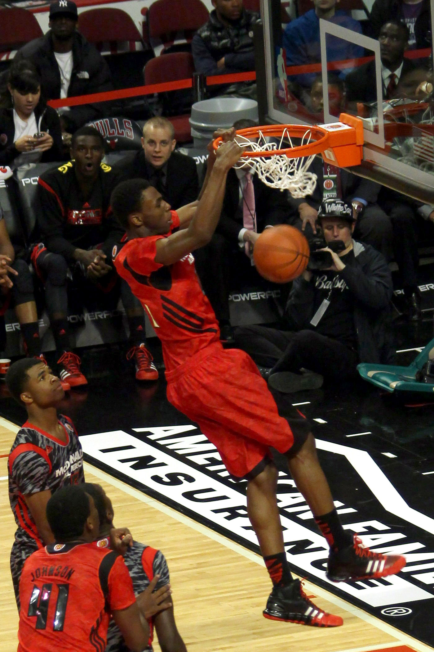 Andrew Wiggins dunking as Andrew Harrison (#5) looks on in the w:2013 McDonald's All-American Boys Game